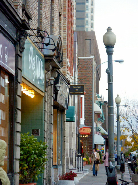 Greene Avenue, Westmount (island of Montreal). Photo by: user:gene.arboit